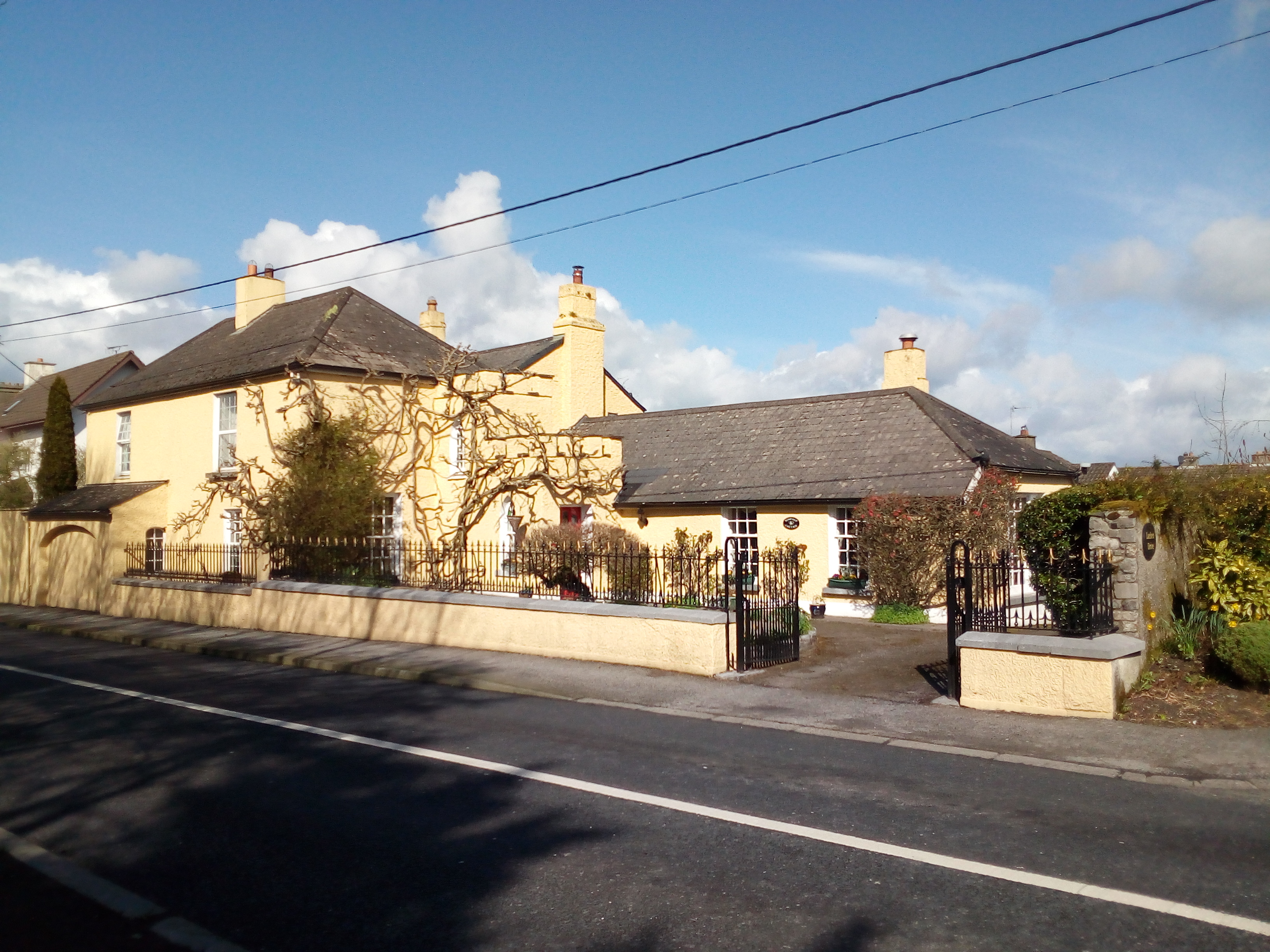 A photograph of Windgap Cottage, also called Banim Cottage locally, because of the Banim brothers having lived there.